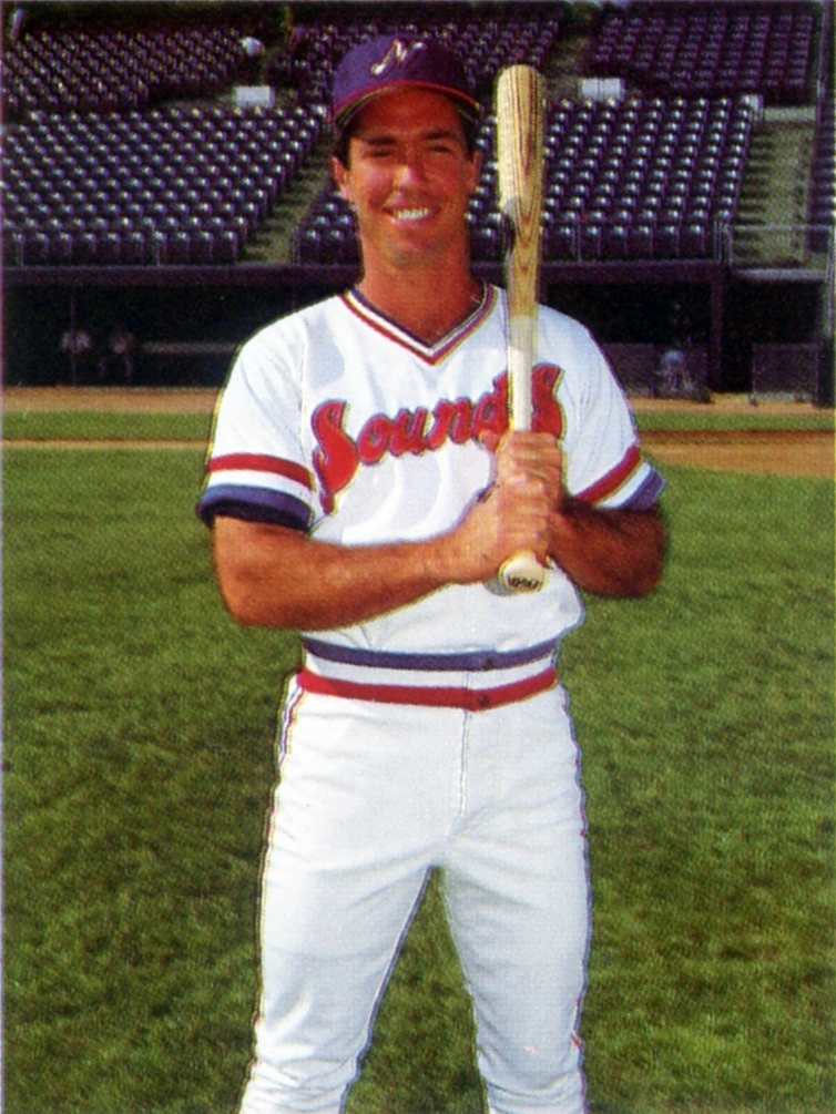 Outfielder Bobby Mitchell of the 1985 Nashville Sounds Minor League Baseball team of the American Association